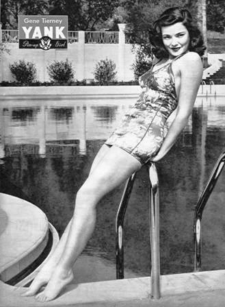 Pin-up photo of Gene Tierney for the Feb. 25, 1944 issue of Yank, the Army Weekly, a weekly U.S. Army magazine fully staffed by enlisted men.